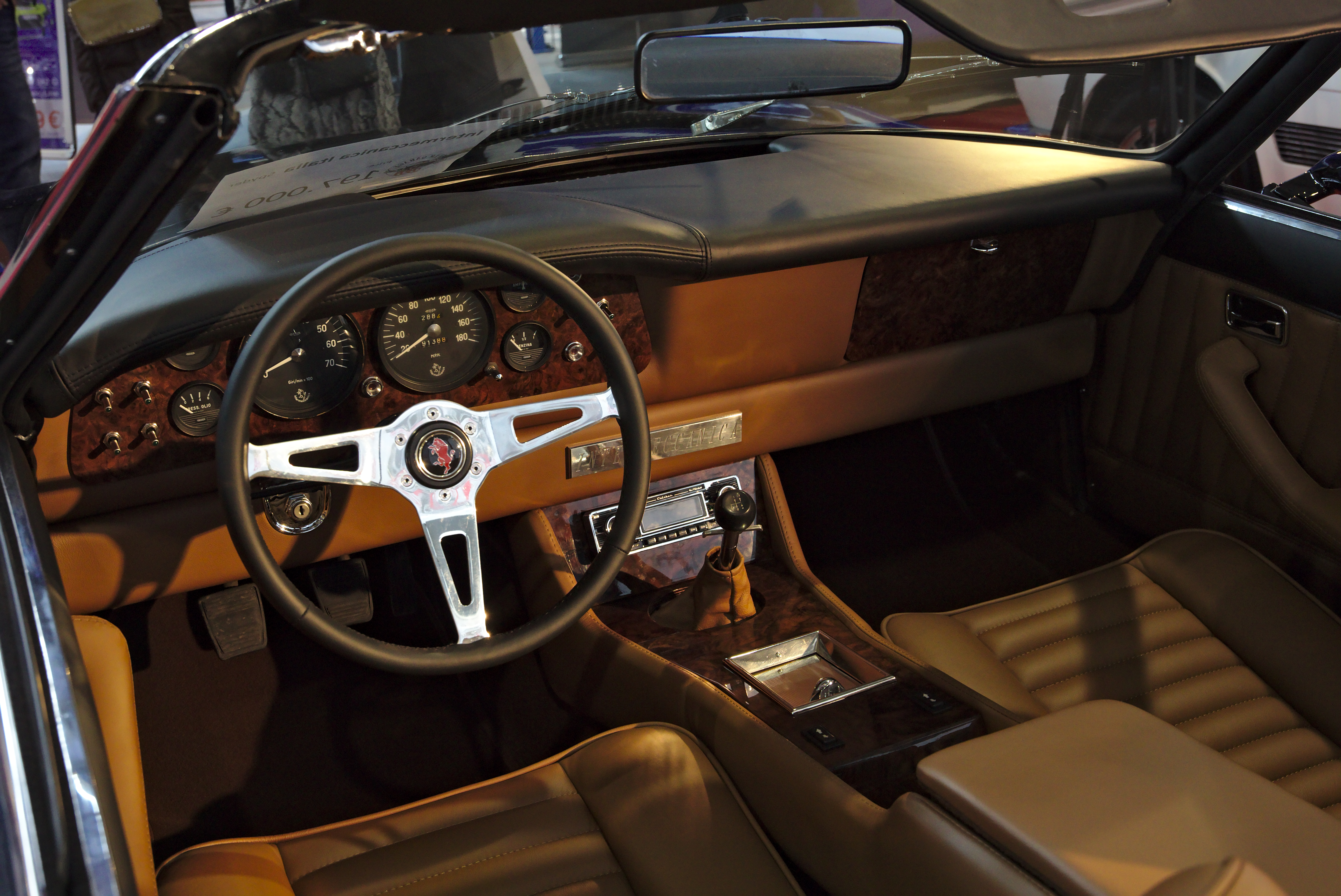 Intermeccanica Italia Spyder at Retro Classics 2018